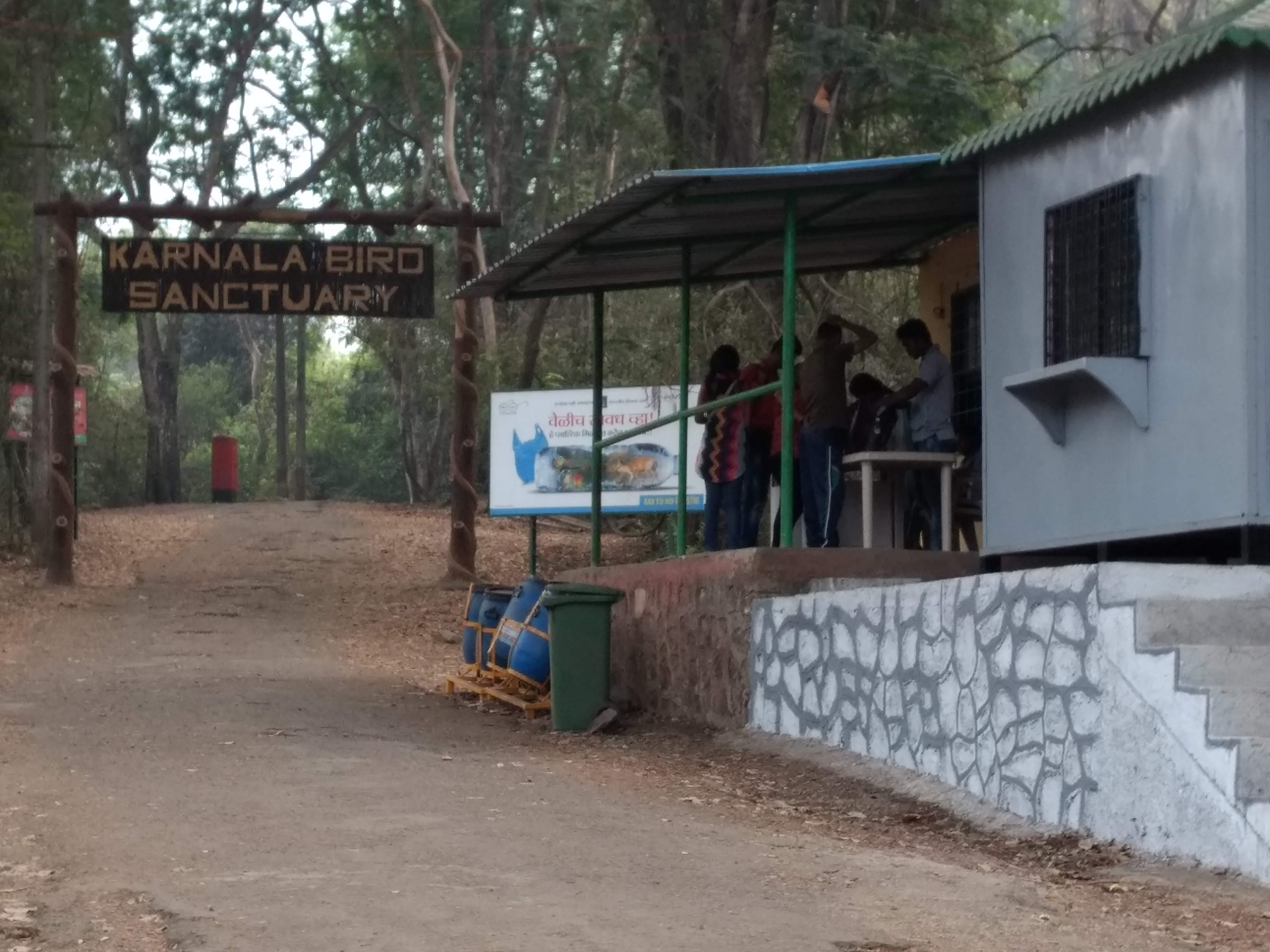 Checkpost at the entrance of Karnala Bird Sanctuary